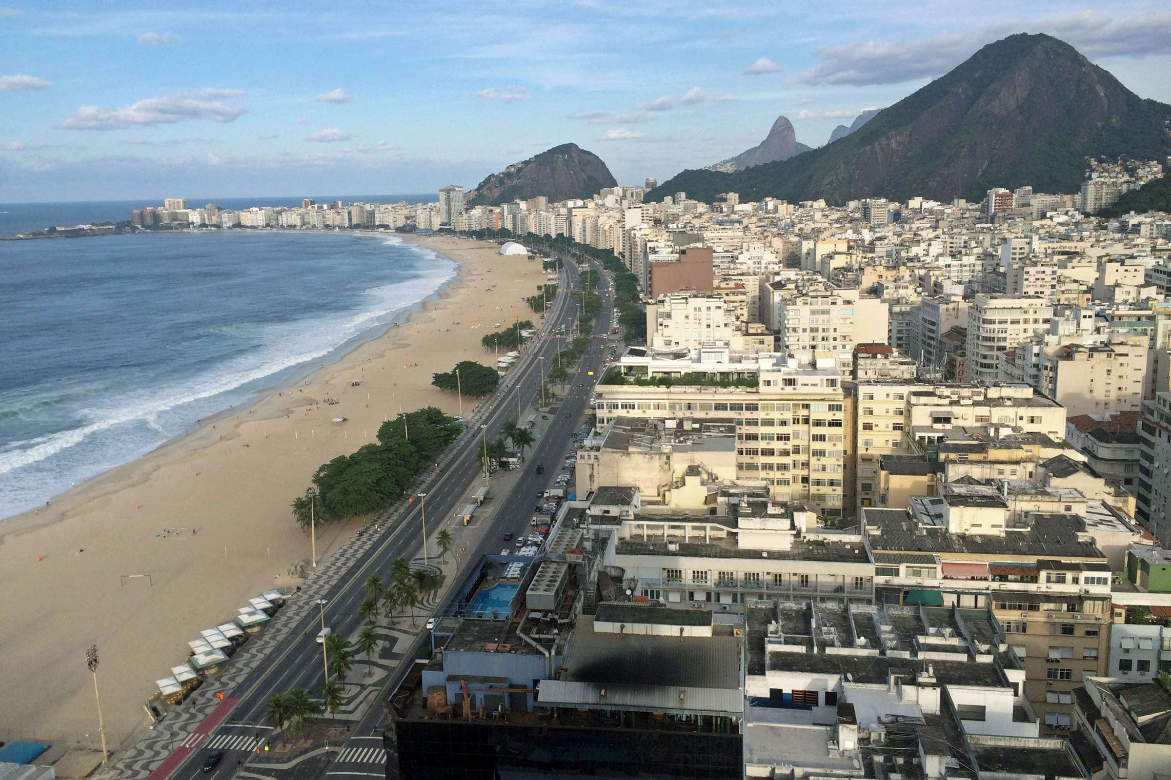 Copacabana Beach, Rio de Janeiro